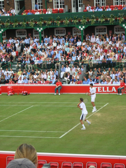 Goran Ivanišević and Mario Ancic play doubles on Centre Court during the 2004 Queen's Club Championships. Shermozle 16:07, Jun 4, 2005 (UTC)